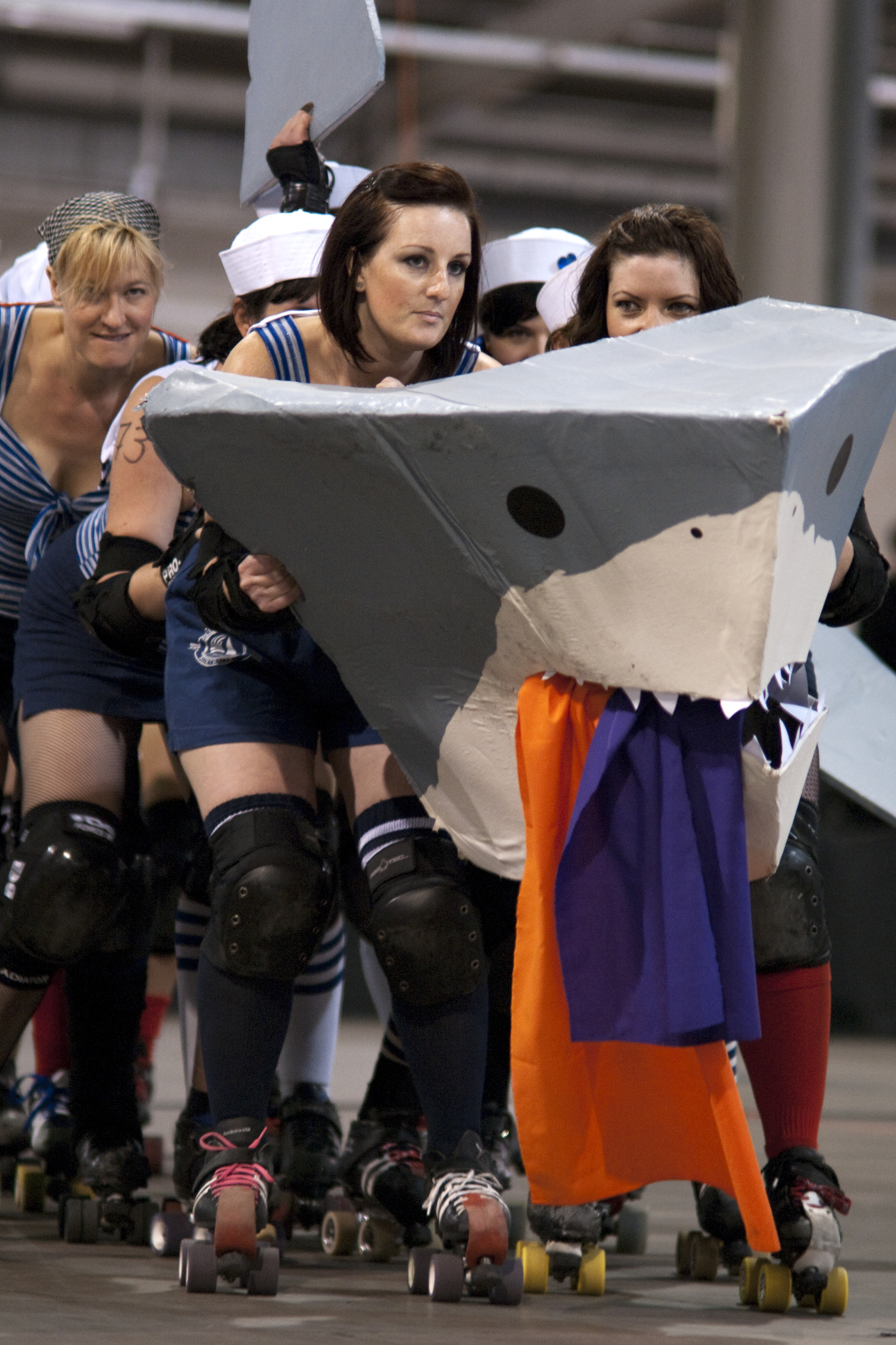 The Salty Dolls roller derby team from the Adelaide Roller Derby league doing their introduction at the start of the match. Taken at the Salty Dolls vs Wild Hearses match, 26 March 2011, at the Adelaide Showgrounds.